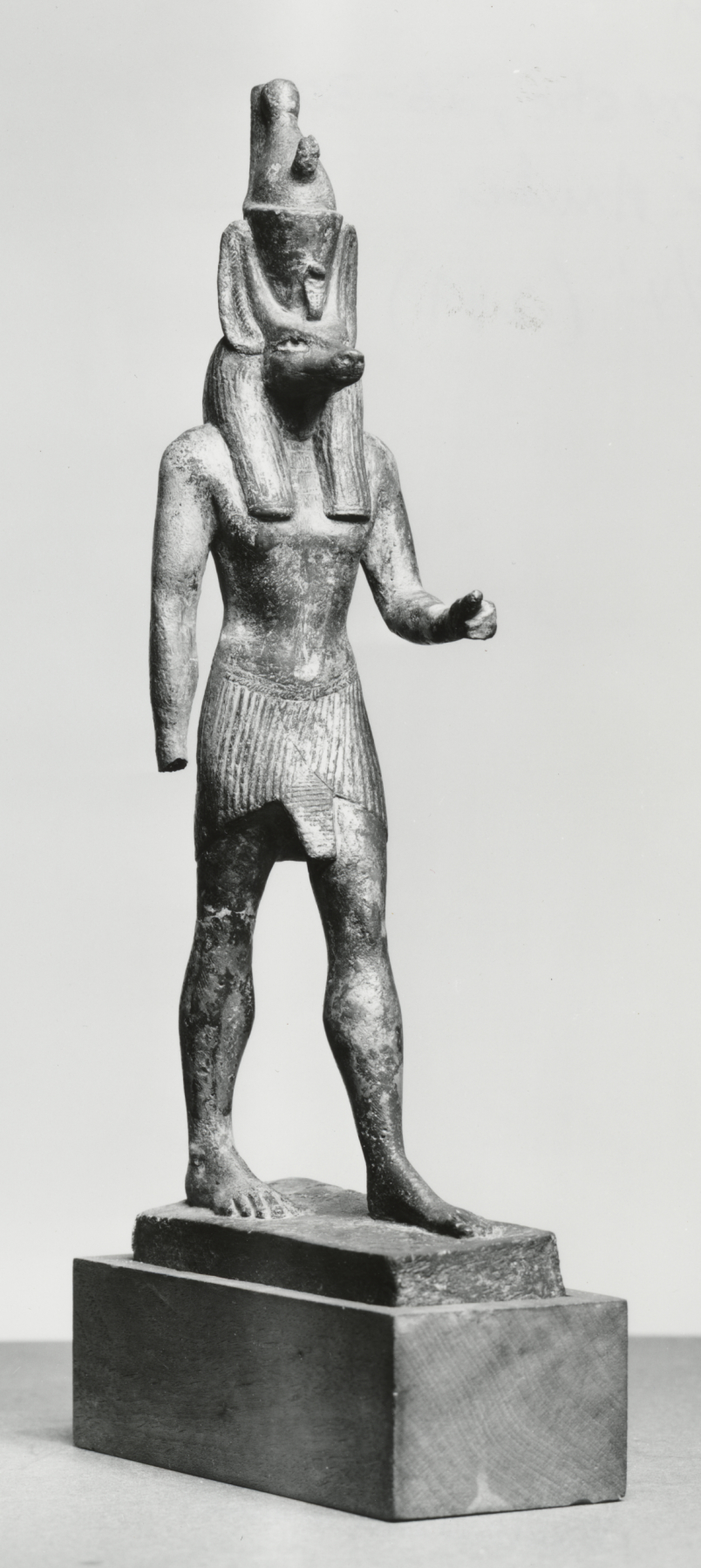 This statuette of Anubis, god of embalming, represents him striding, wearing a long wig that covers the transition between his human body and jackal head. As a son of Osiris, he wears the double crown of Upper and Lower Egypt.